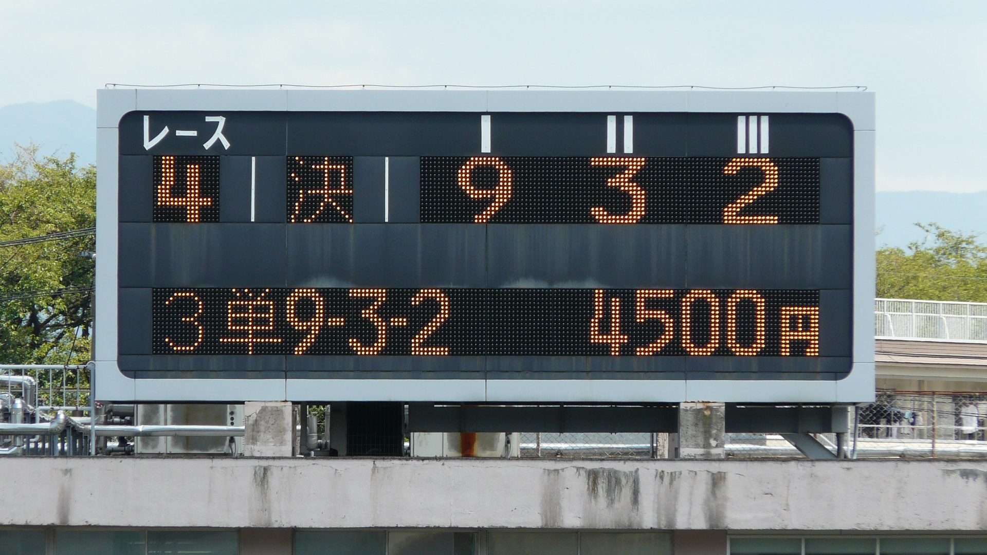 Fukui-keirin